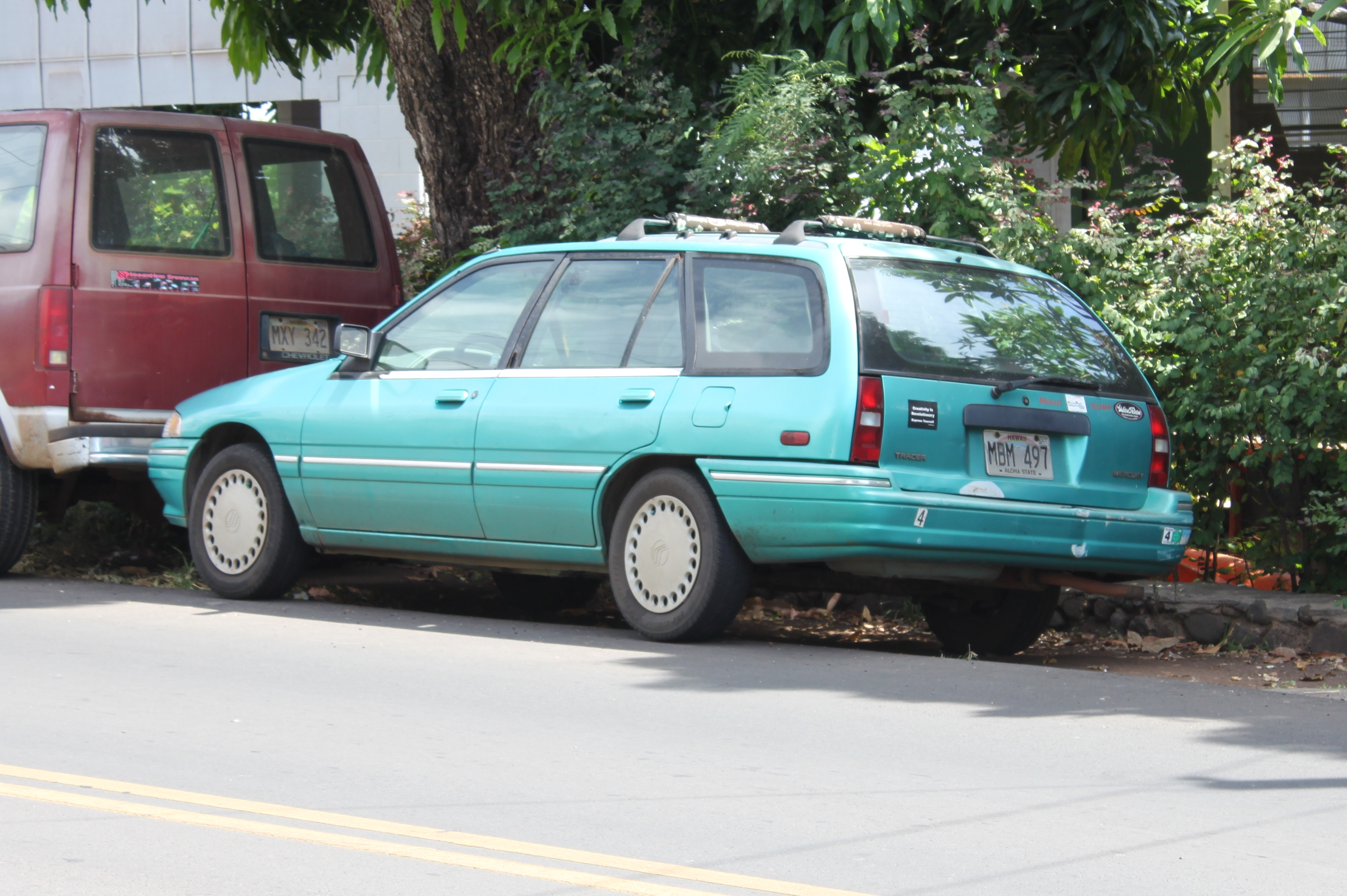 Mercury Tracer Wagon